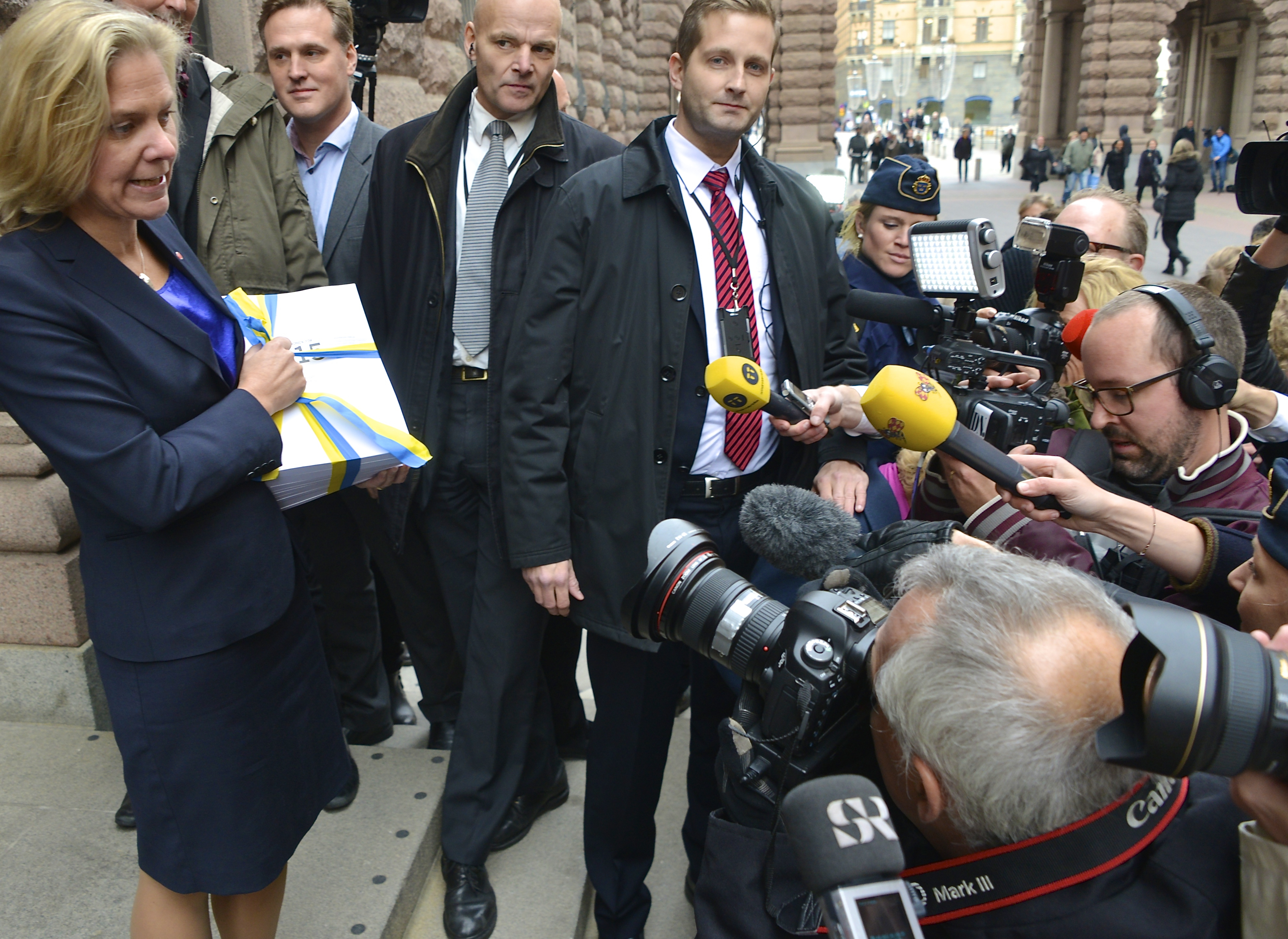 Swedish Minister for Finance Magdalena Andersson, with the 2015 budget proposition, during the walk to Parliament, October 23th, 2014.